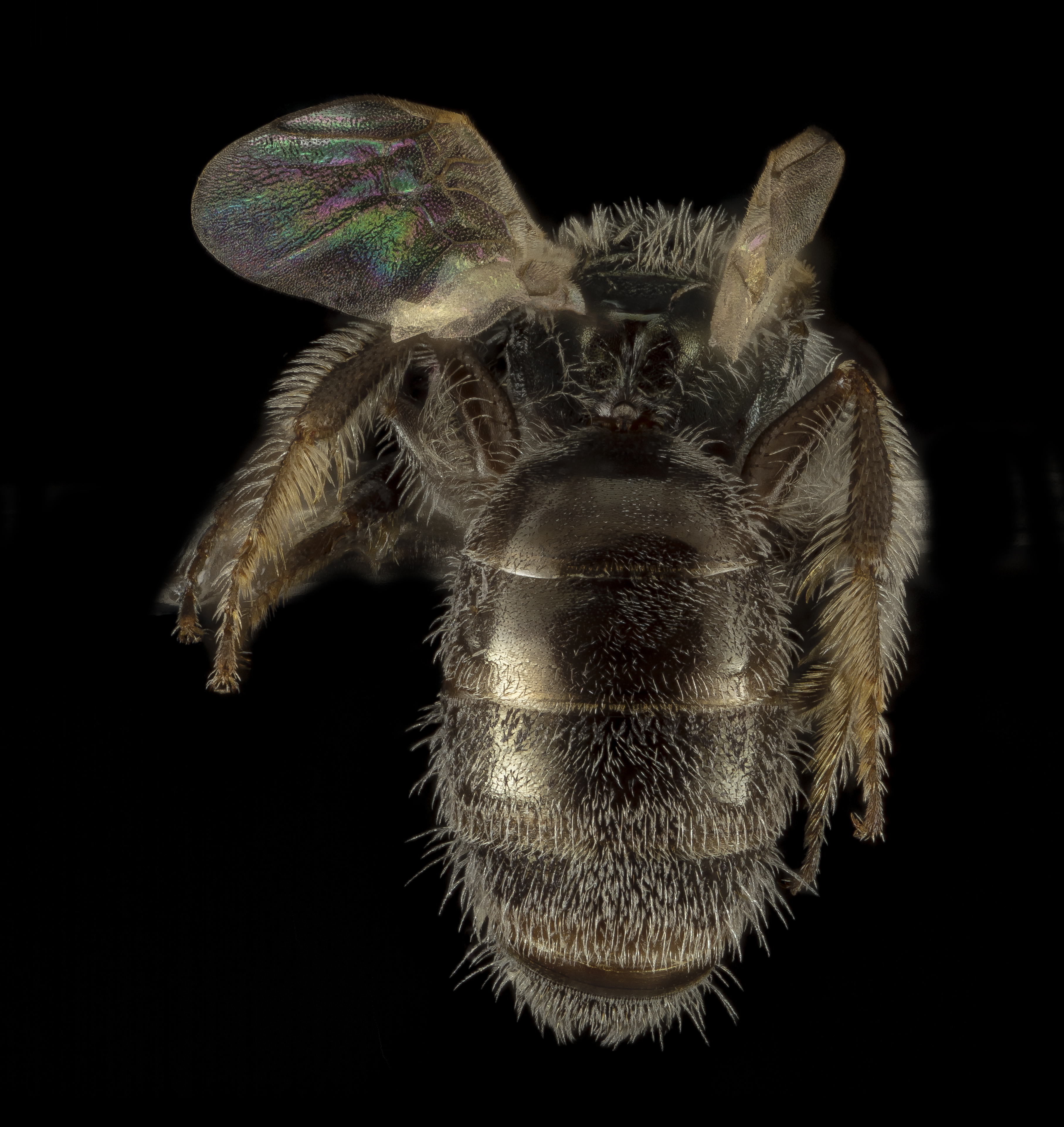 This Lasioglossum comes from Yellowstone National Park. If we actually had a good shot of its head you would see that it has an interesting and large one, but we don't, so you just have to be satisfied with the top of the abdomen, which is nice enough for a bee. Photograph by Brooke Alexander. Photoshopping by Wayne Boo. 03:01, 11 April 2016 (UTC)03:01, 11 April 2016 (UTC) 0 03:01, 11 April 2016 (UTC)03:01, 11 April 2016 (UTC) All photographs are public domain, feel free to download and use as you wish. Photography Information: Canon Mark II 5D, Zerene Stacker, Stackshot Sled, 200mm Pentax-m with Nikon 10X infinity microscope objective lens mounted on front , Twin Macro Flash in Styrofoam Cooler, F5.6, ISO 100, Shutter Speed 200 Love for Other Things It’s easy to love a deer But try to care about bugs and scrawny trees Love the puddle of lukewarm water From last week’s rain. Leave the mountains alone for now. Also the clear lakes surrounded by pines. People are lined up to admire them. Get close to the things that slide away in the dark. Be grateful even for the boredom That sometimes seems to involve the whole world. Think of the frost That will crack our bones eventually. - Tom Hennen You can also follow us on Instagram account USGSBIML Want some Useful Links to the Techniques We Use? Well now here you go Citizen: Basic USGSBIML set up: USGSBIML Photoshopping Technique: Note that we now have added using the burn tool at 50% opacity set to shadows to clean up the halos that bleed into the black background from "hot" color sections of the picture. PDF of Basic USGSBIML Photography Set Up: ftp://ftpext.usgs.gov/pub/er/md/laurel/Droege/How%20to%20Take%20MacroPhotographs%20of%20Insects%20BIML%20Lab2.pdf Google Hangout Demonstration of Techniques: or Excellent Technical Form on Stacking: Contact information: Sam Droege 301 497 5840